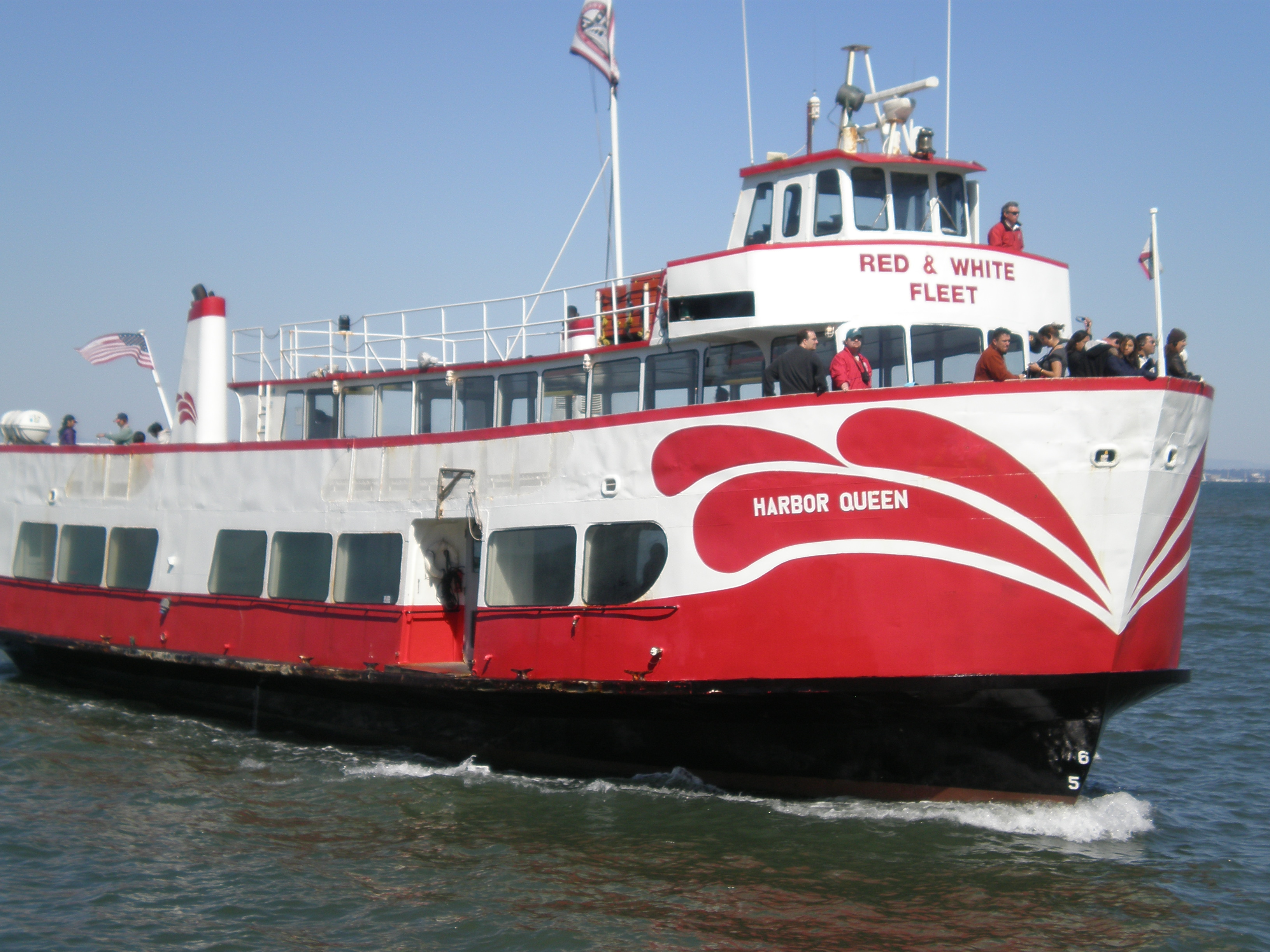 The Red & White Fleet ferry Harbor Queen coming into Pier 45 in San Francisco.